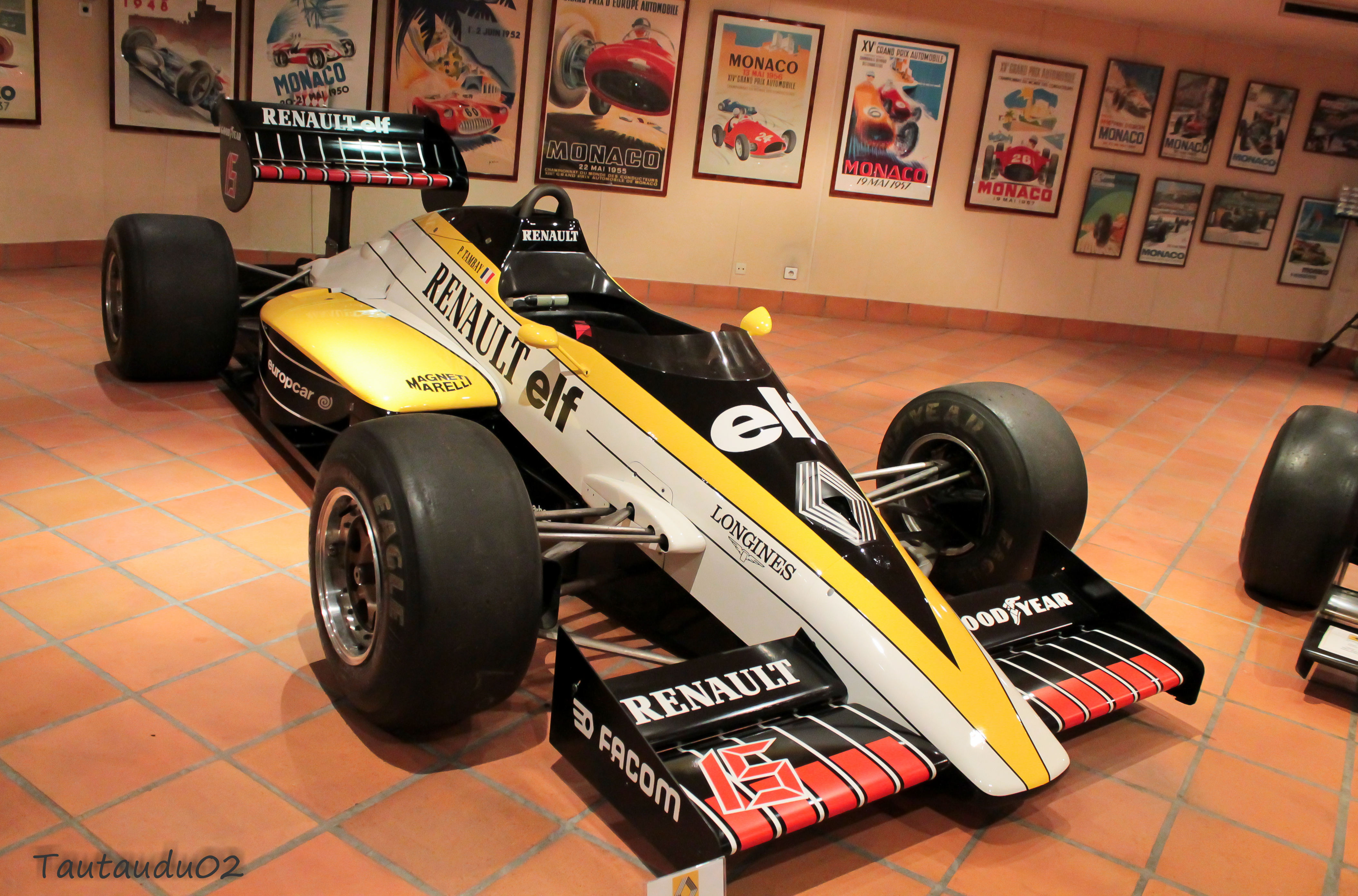 Renault RE60 at Musée Automobile de Monaco